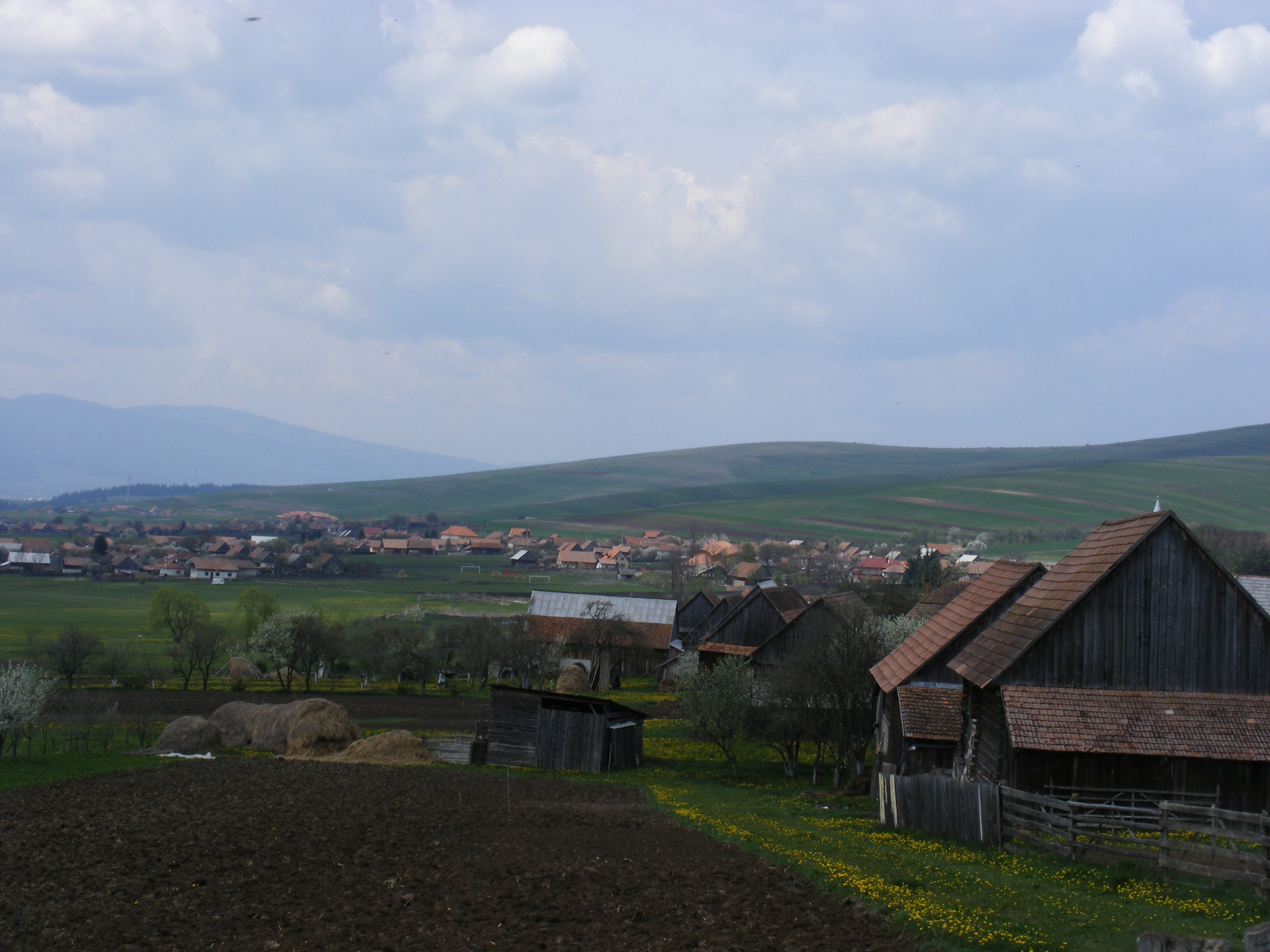 Misentea (Csíkmindszent) in Transsilvany